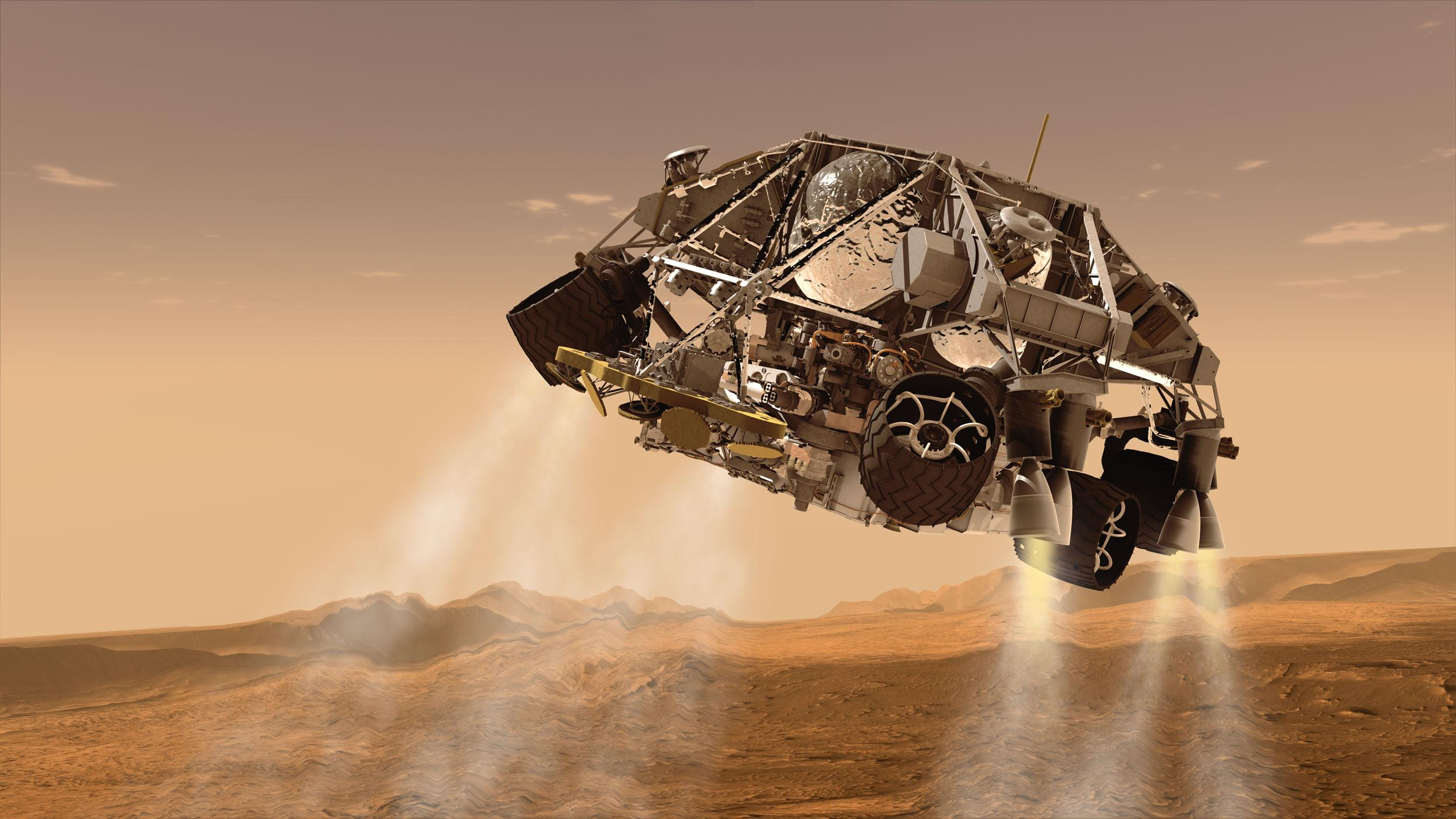 Curiosity and Descent Stage, Artist's Concept This is an artist's concept of the rover and descent stage for NASA's Mars Science Laboratory spacecraft during the final minute before the rover, Curiosity, touches down on the surface of Mars. The descent stage will provide rocket-powered deceleration for a phase of the arrival at Mars after the phases using the heat shield and parachute. The descent stage also carries the radar system providing a stream of information about the spacecraft's altitude and velocity. As it nears the surface, shortly after the moment depicted here, the descent stage will lower the rover on a bridle and deliver it to the ground.